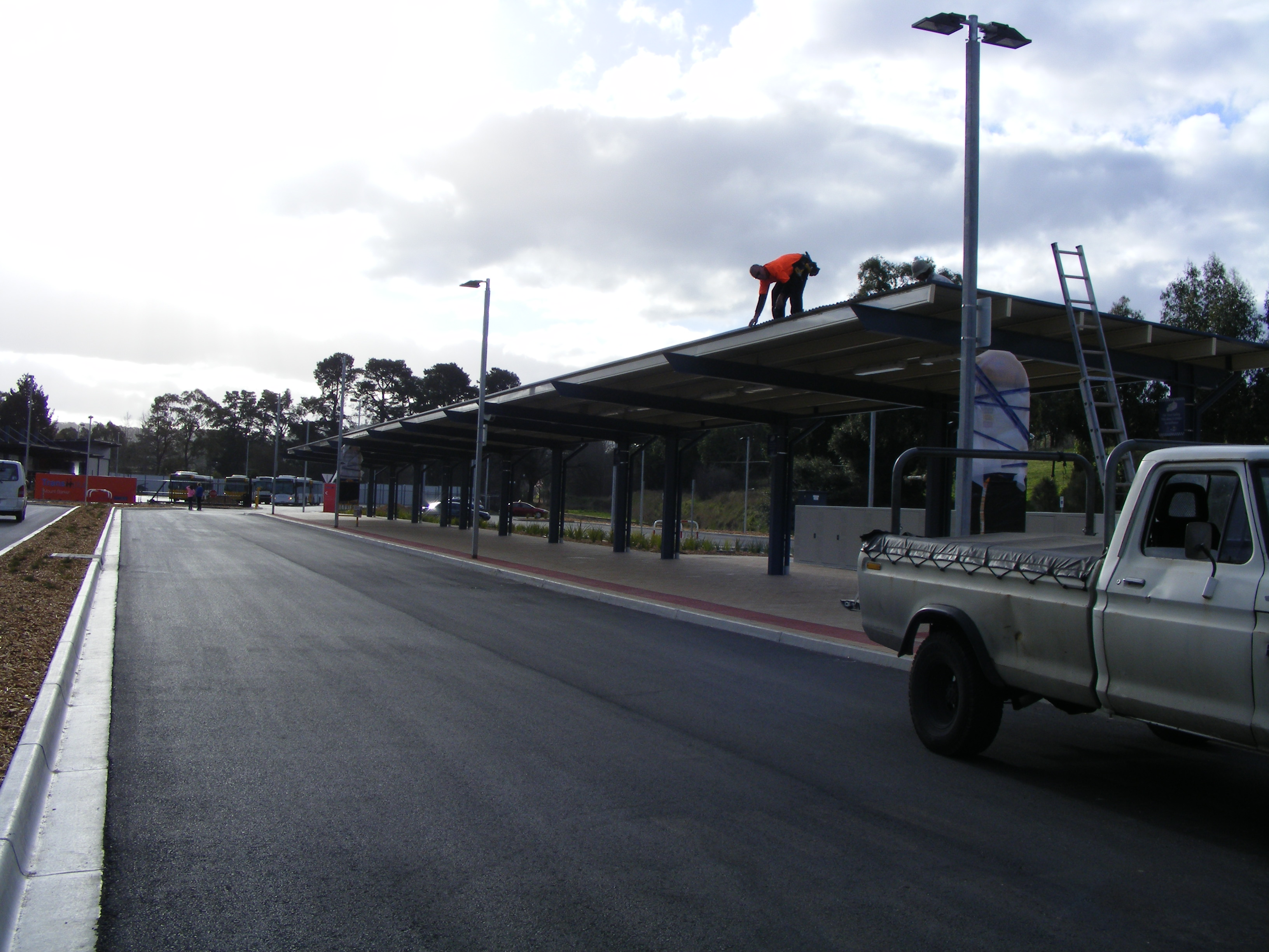 Taken by Norman Hackenberg at Mount Barker Park 'n' Ride on 4 July 2008.